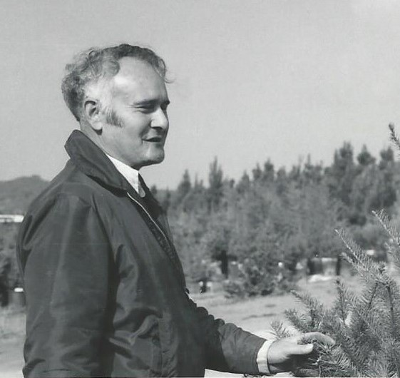 Warren Church at Farm